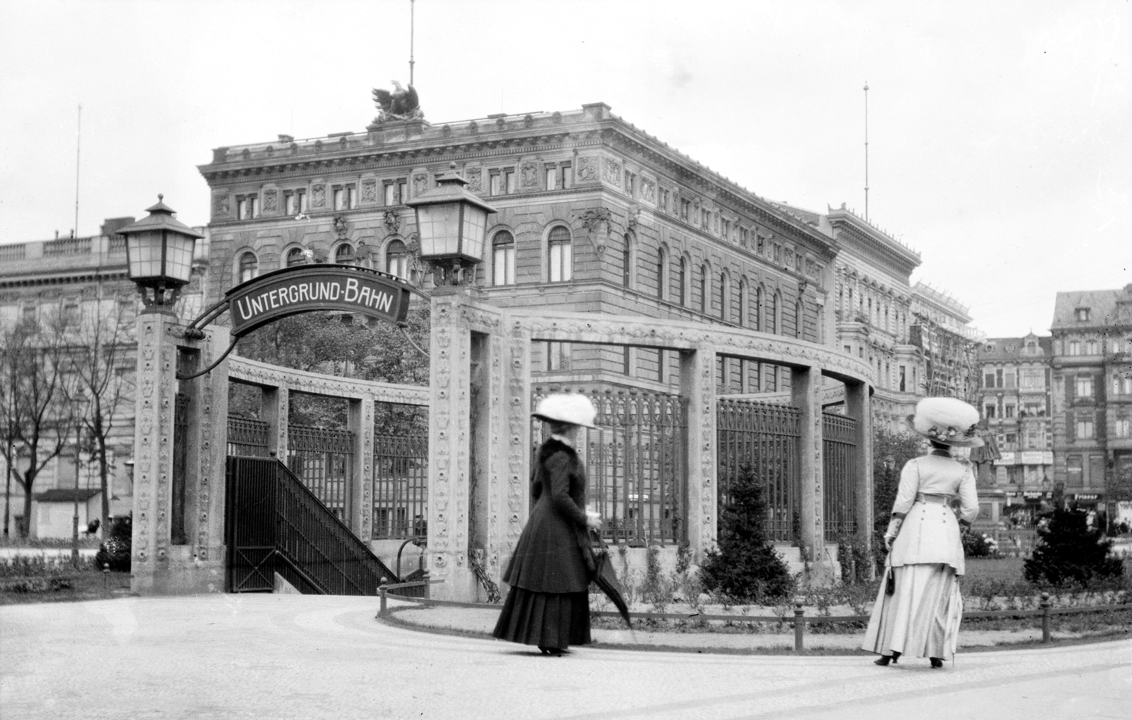 western entrance to the subway station "Kaiserhof" at Berlin, Wilhelmplatz (today station "Mohrenstraße", line U2); built 1908 after a design by Alfred Grenander, destroyed in 1936